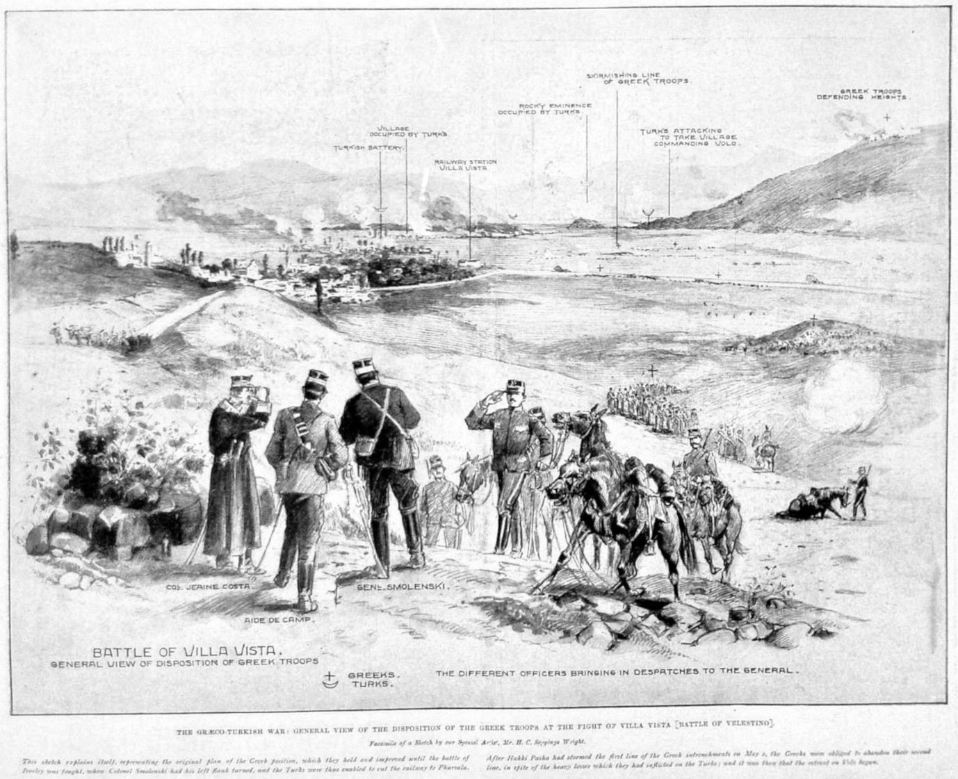 General view of the disposition of the Greek troops at the fight of Villa Vista (Battle of Velestino) during the Greco-Turkish War of 1897